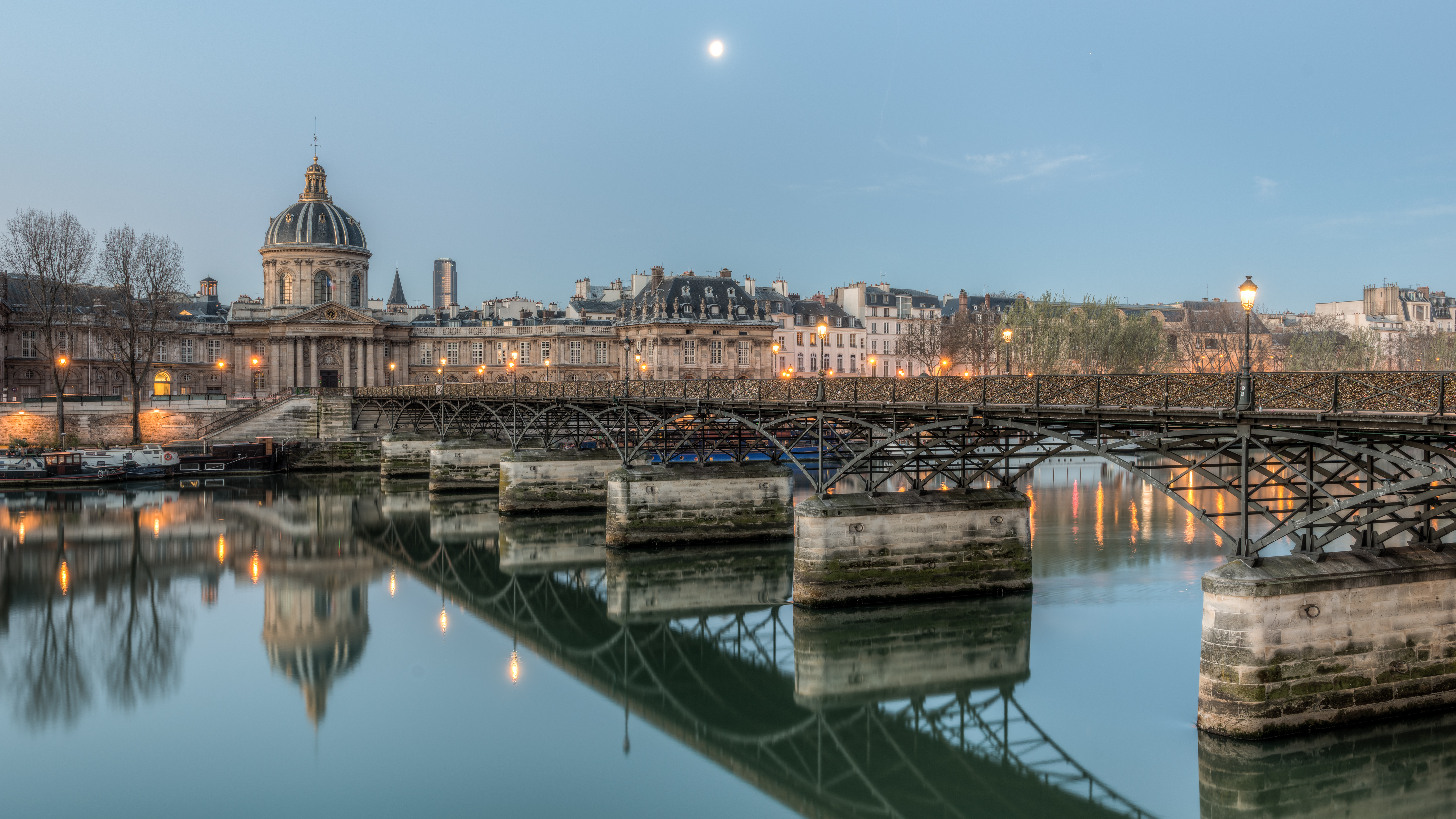 The Pont des Arts as seen from the 1st Arrondissement of Paris at dawn This is a retouched picture, which means that it has been digitally altered from its original version. Modifications: 7-image tonemapped HDR.